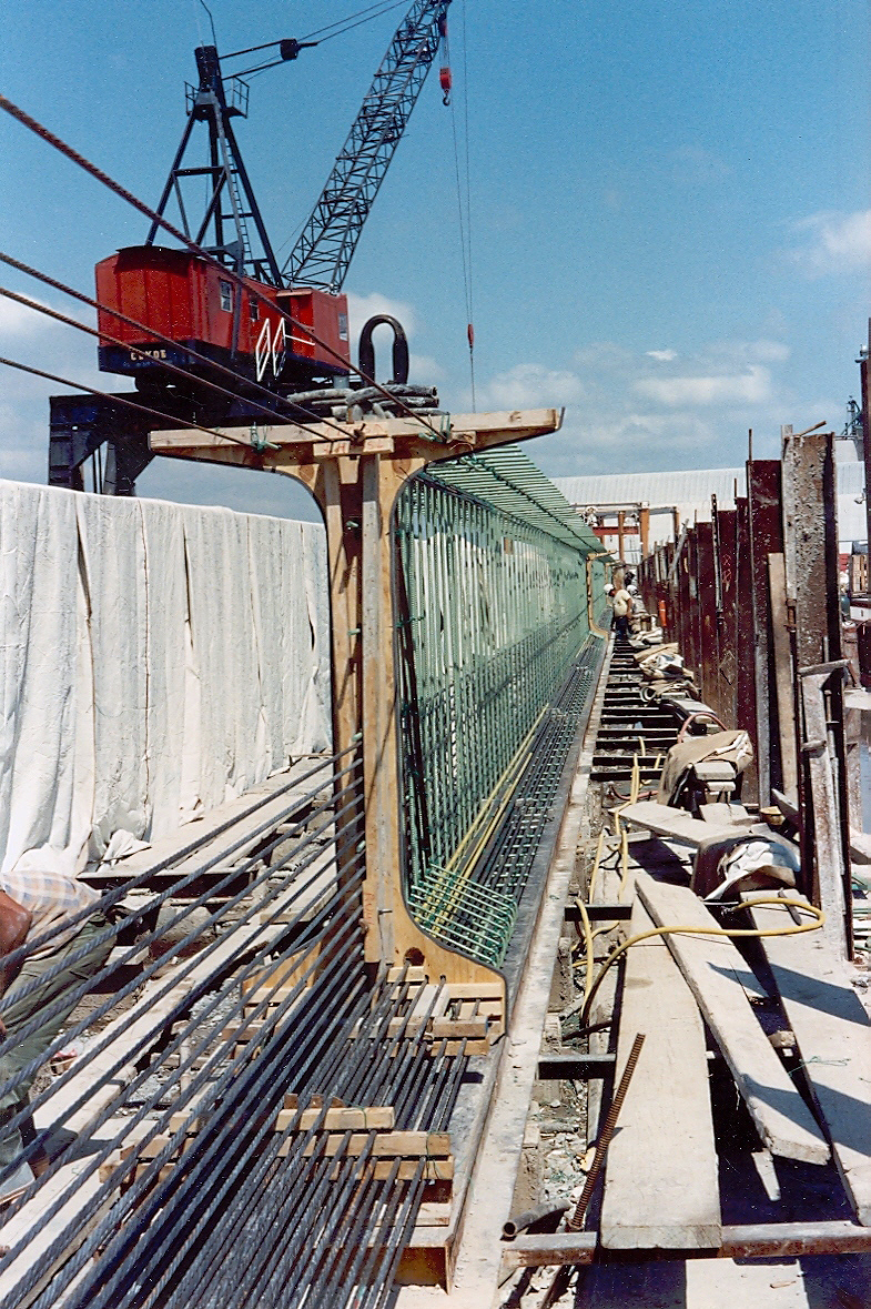 Image of an AASHTO presressed concrete girder